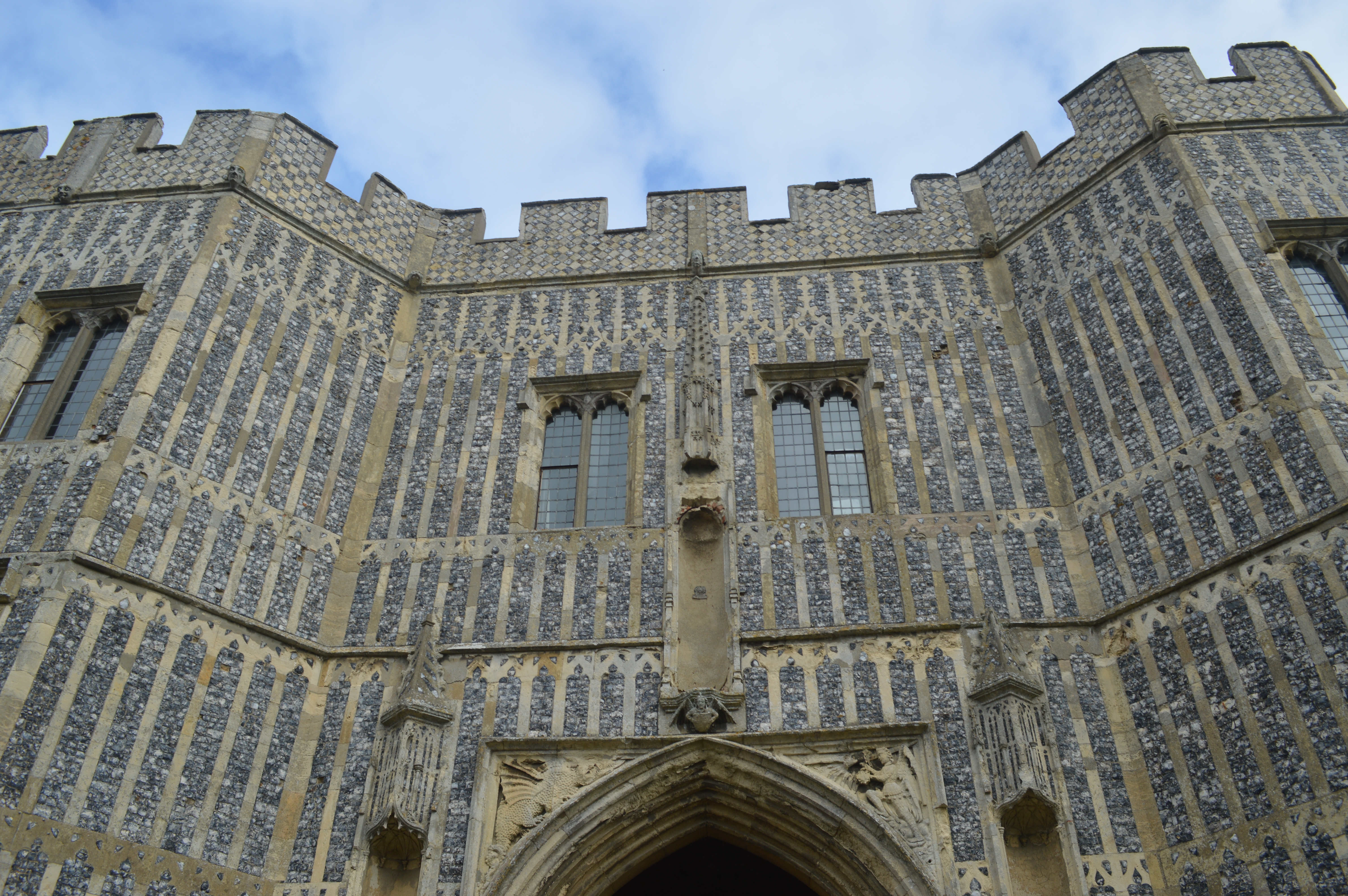 The southern upper part of the St Osyth's Priory Gatehouse. This is part of the Grade I listed building "St Osyth's Priory, Gatehouse and East and West flanking Ranges" which the description "the Gatehouse is considered by some to be one of the finest monastic buildings in the country ..."